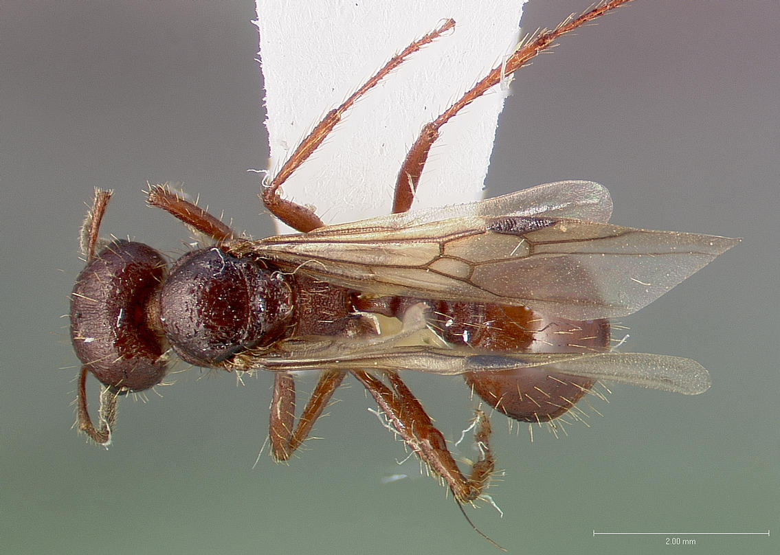 Dorsal view of ant Pogonomyrmex colei specimen casent0005716.